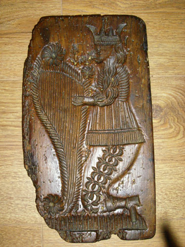 Alsatian wood gingerbread mold from 1650, Musée du pain d'épices et de l'Art Populaire Alsacien, France